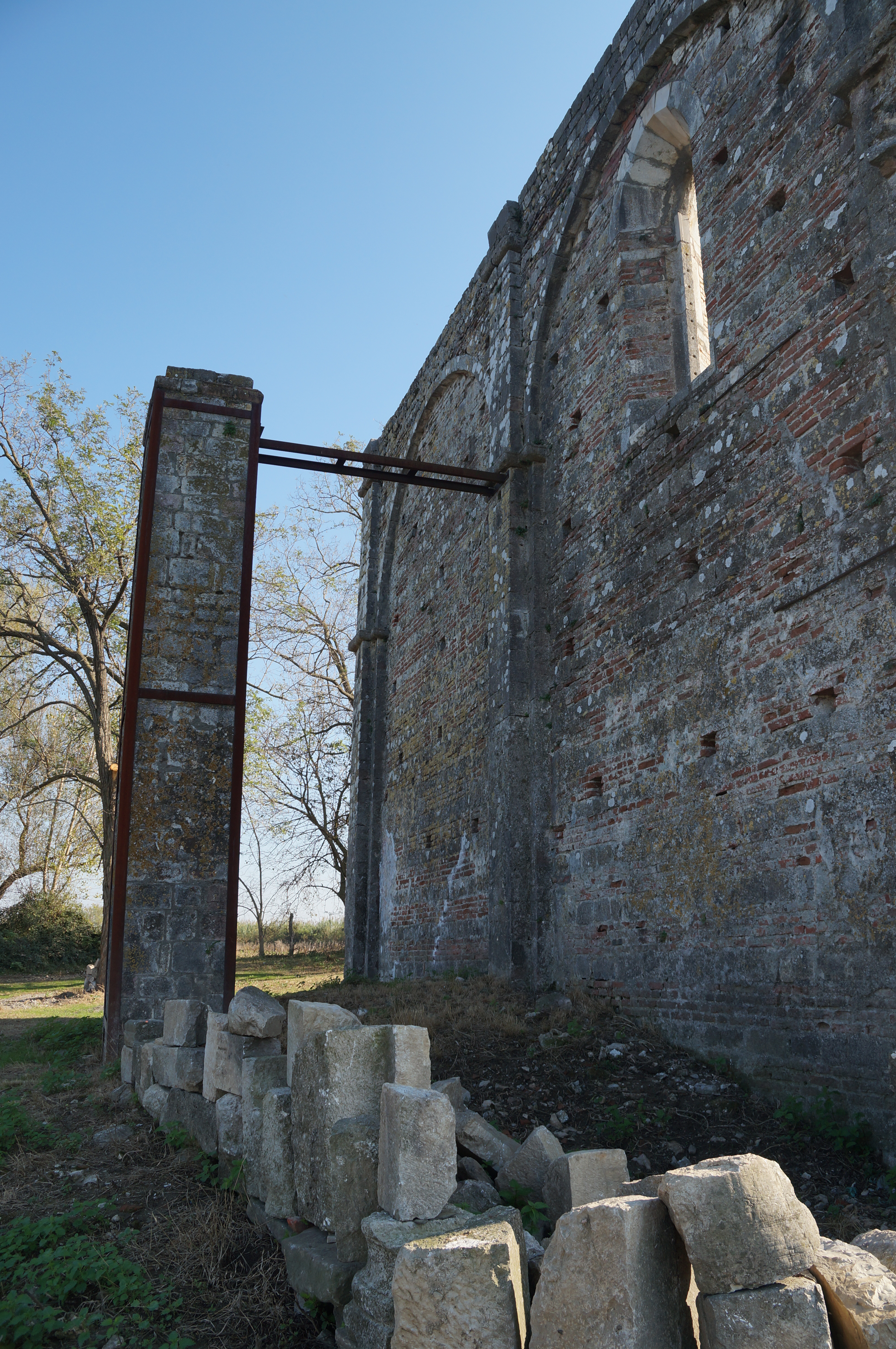 The ruins of the Church of Shirgj: North side of the wall and column of the interior